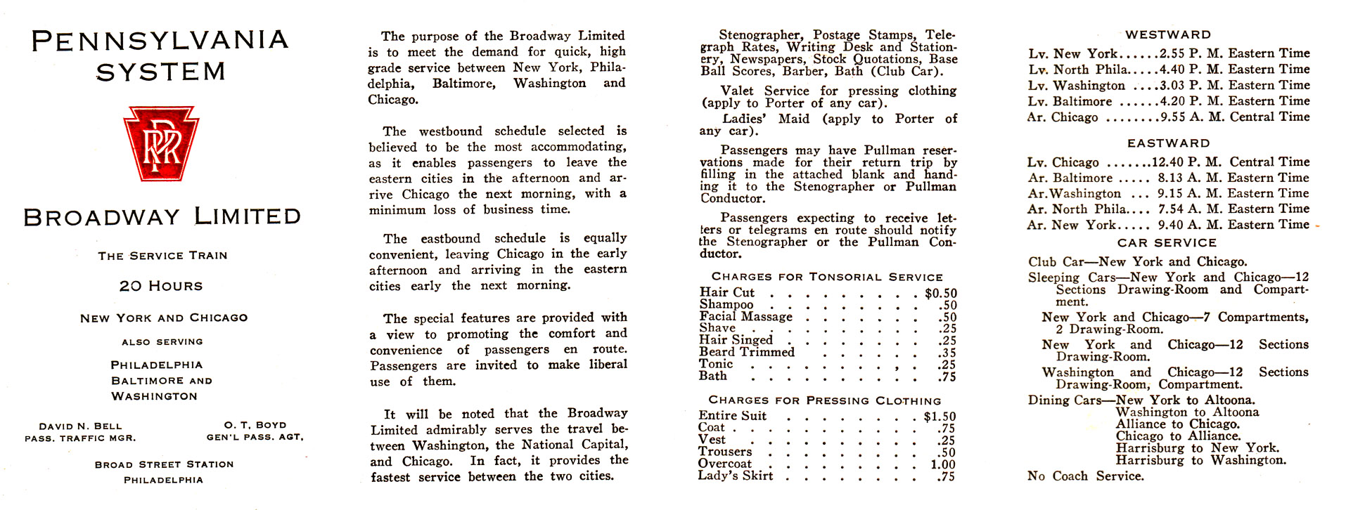 Printed pocket card with information re the Pennsylvania Railroad's all sleeper car train, the Broadway Limited, providing service between New York - Philadelphia - Baltimore - Washington - Chicago